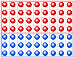 Illustration of multiplication's distributivity with geometry